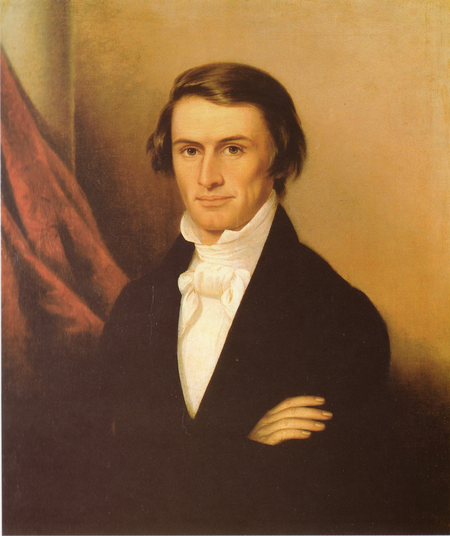 Painting Henry Alexander Wise by Sarah Miriam Peale